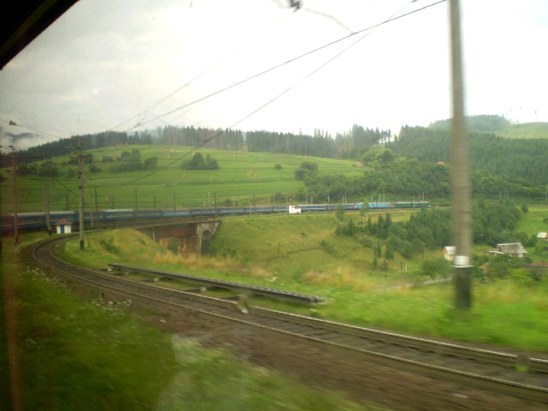 Залізниця Львів-Чоп в Карпатах Railway Lviv-Chop in Carpathian Mountains